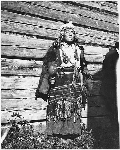 Item Title Gitksan woman Shaman and Chief, Kispiox, British Columbia, 1909 Created/Published 1909 Notes Man poses outside by wall, with hide cloak, woven fabric wrapped about waist, headdess with decorations; he holds large rattle. Note from unidentified source: Gitksan man wearing shaman's clothing and holding rattle, taken at village of Kispiox photographer's reference number: [5-29] Subjects Portraits--British Columbia Gitksan Indians--Clothing & dress Shamans--British Columbia--Kispiox Photographs Canada--British Columbia--Kispiox Object Type still image Medium Photographs Language English Reproduction Number NA3373 Part of George Thornton Emmons Collection no. 131 Repository University of Washington Libraries